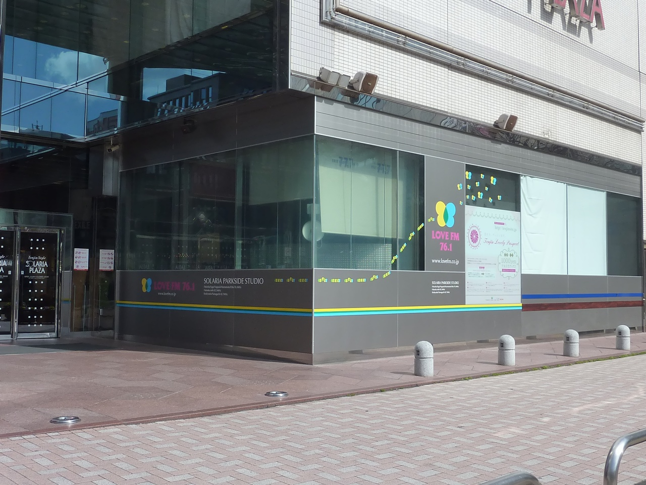 Love FM (Tenjin FM, JOFW-FM) Solaria Parkside Studio (Fukuoka, Japan) March 2011.